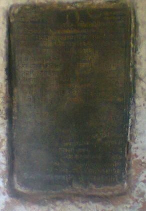 Kajijasapau Thapako Pauwa